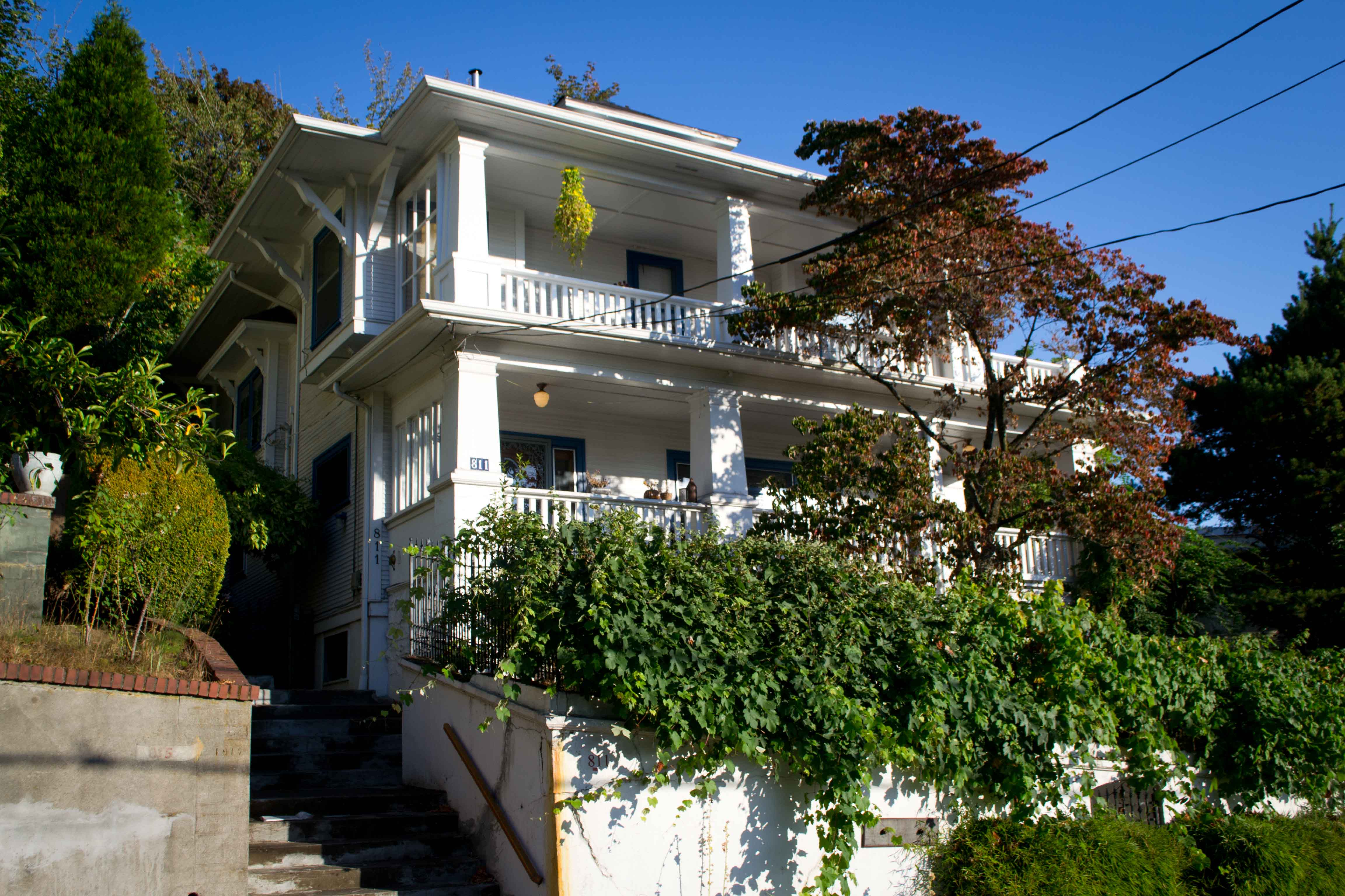 National Register of Historic Places listing in Portland, Oregon